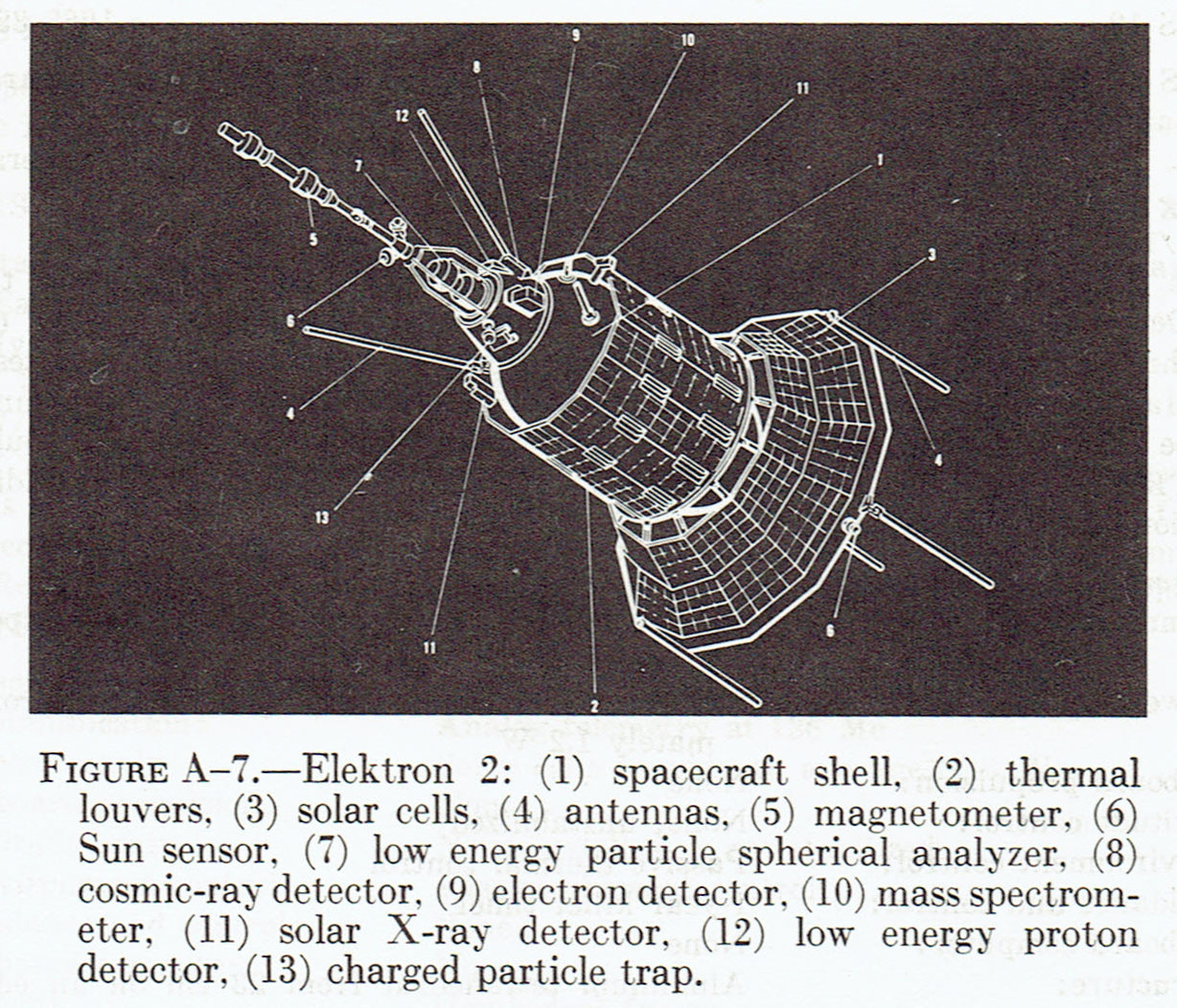 Elektron 2 with diagram notes